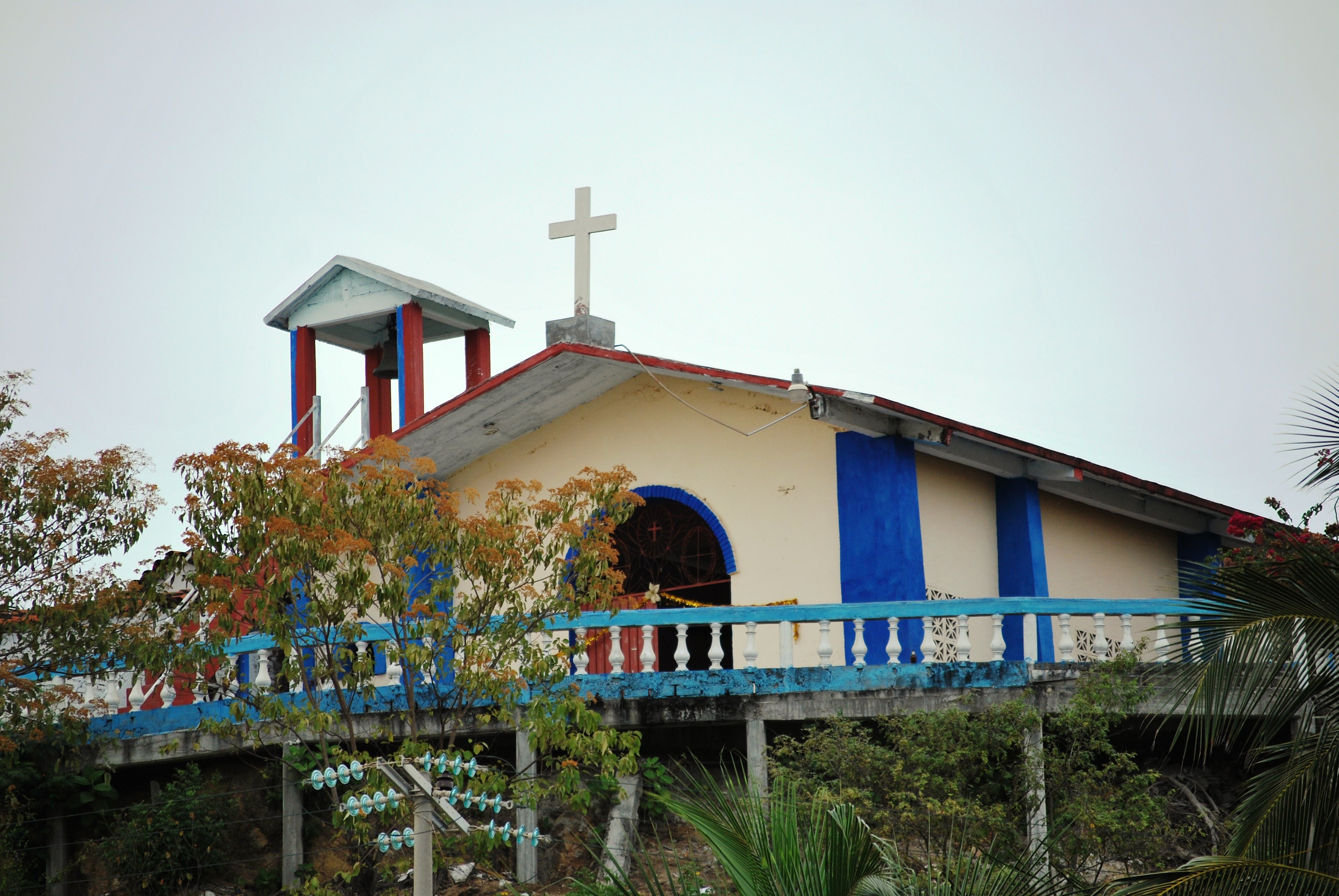 Facade of the church in Puerto Angel, Oaxaca